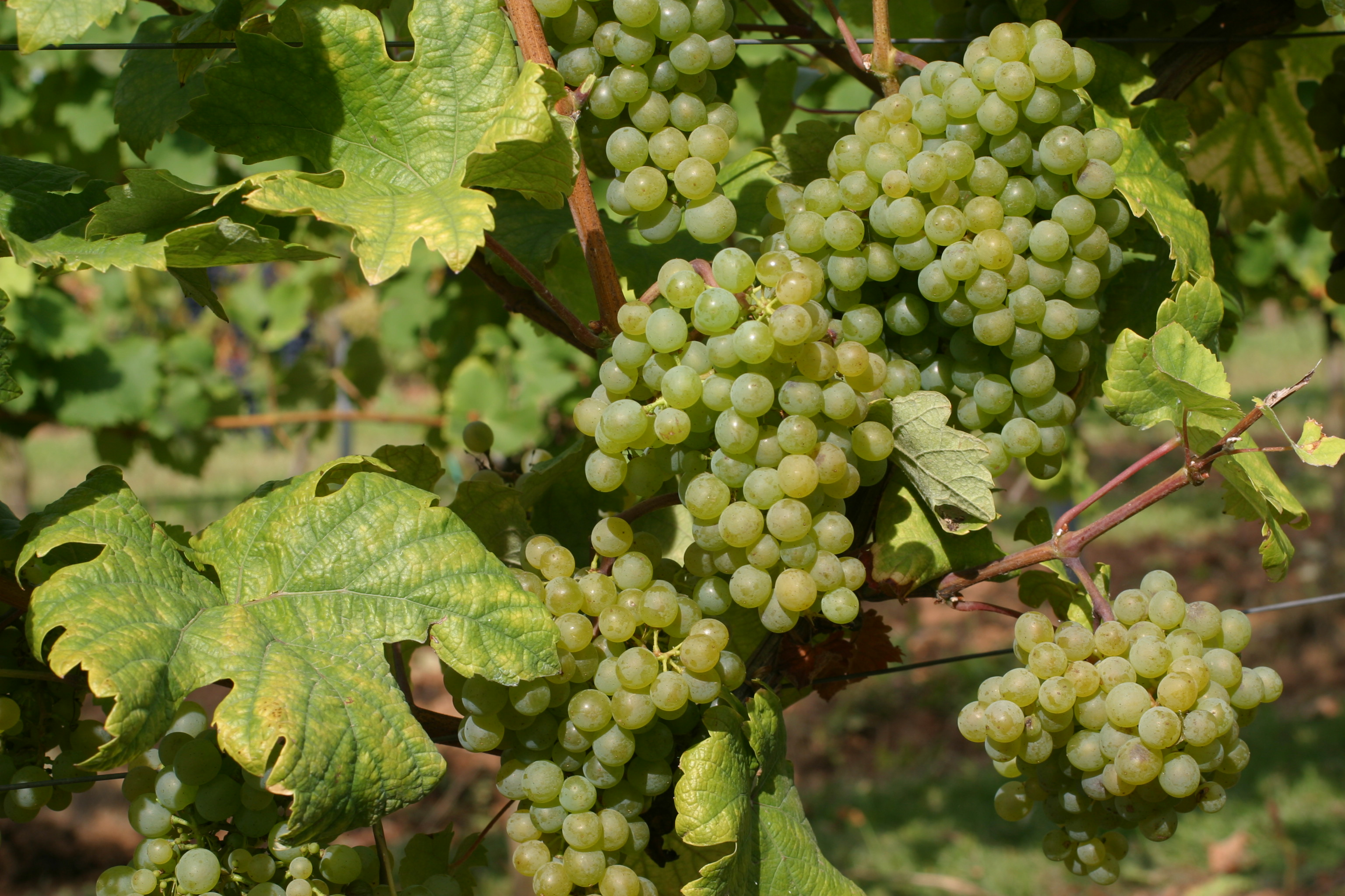 A stock of the Grüner Veltliner grape variety